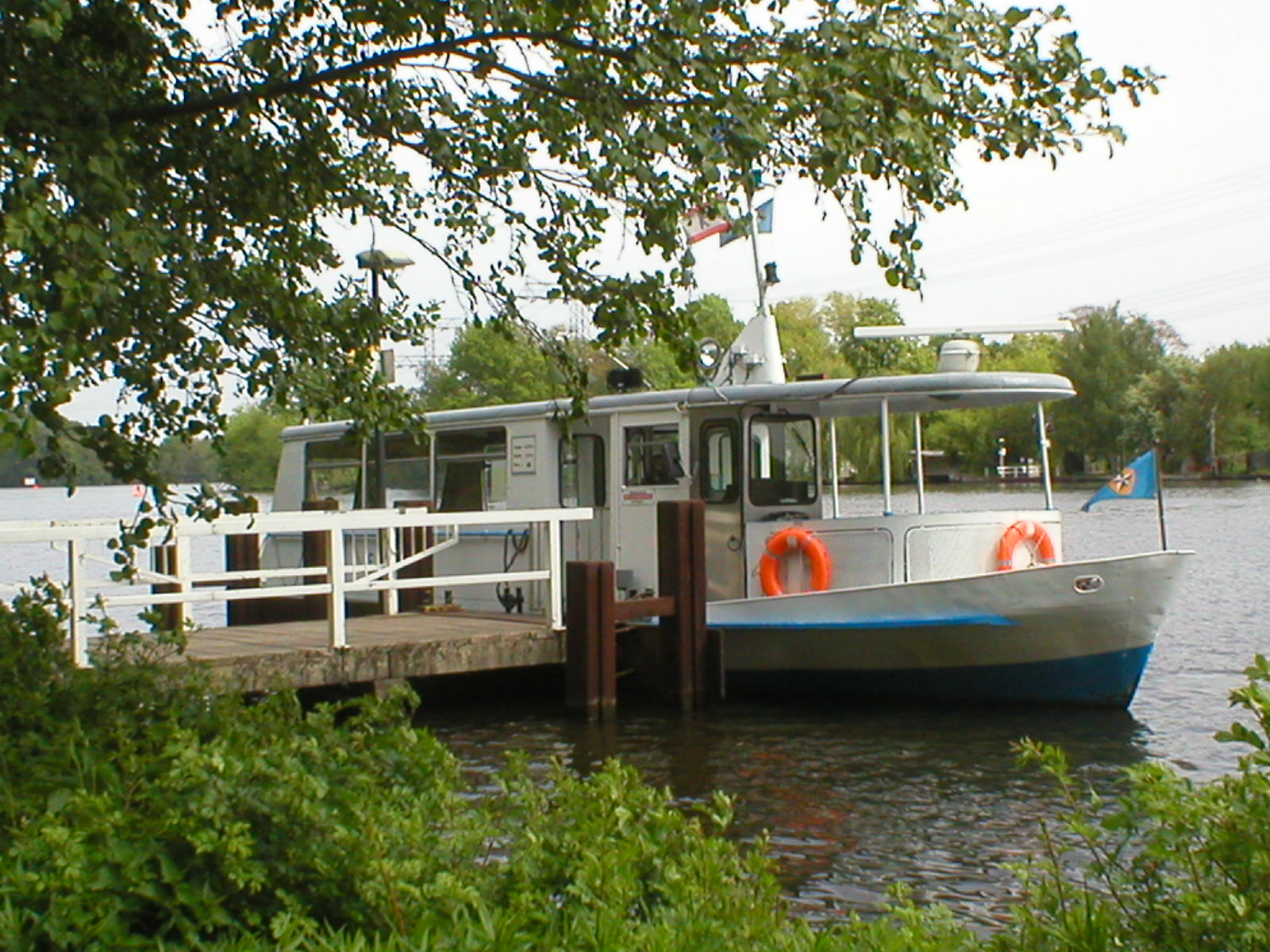 boat of Berlin's ferry line F11 at Baumschulenstraße/Fähre peer